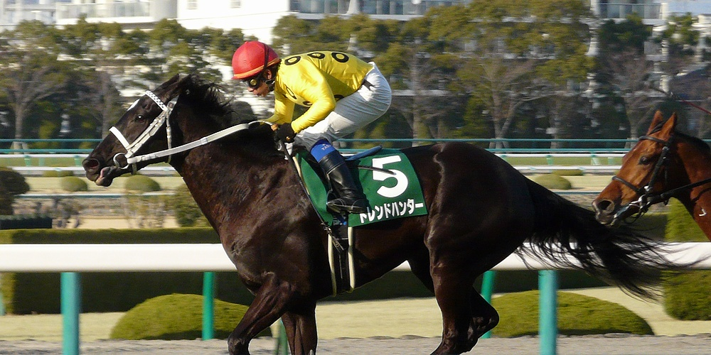 Trend-Hunter20110326